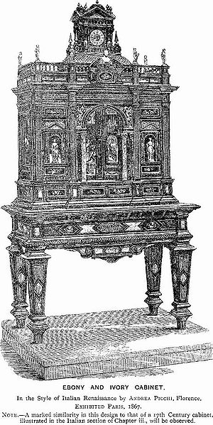 Italian Cabinet present at the 1867 Paris Exhibition